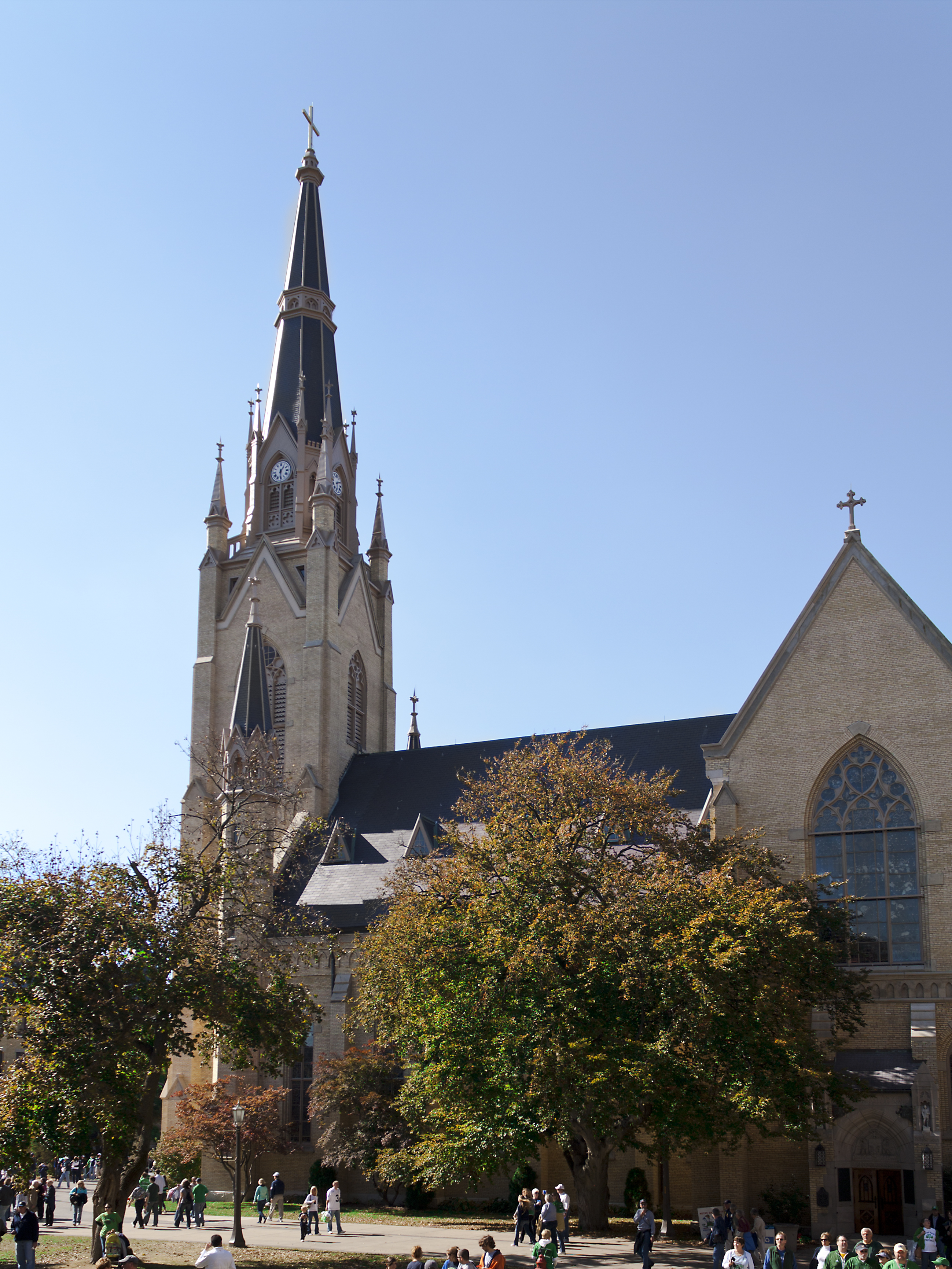 Basilica of the Sacred Heart (Notre Dame, IN) - exterior